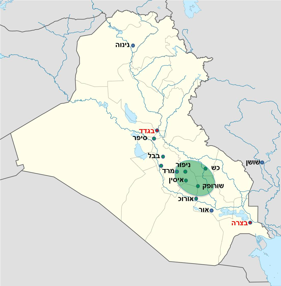 Til-Abubi estimated area in Babylon